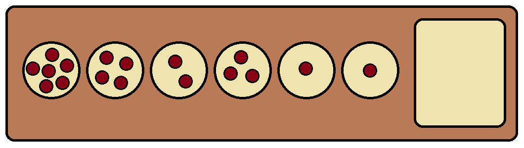 The 17-stone "clearing pattern" for the game Kalah. The stones can be captured in a single turn. This is the longest such chain that can be played on a standard, six pit Kalah board.